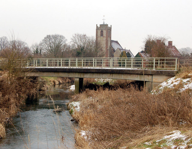 River Itchen bridge, Long Itchington. The bridge carrying Bascote Road across the River Itchen with Holy Trinity church in the distance. The river level is low in this photo; for a view of the river in flood see 655690.